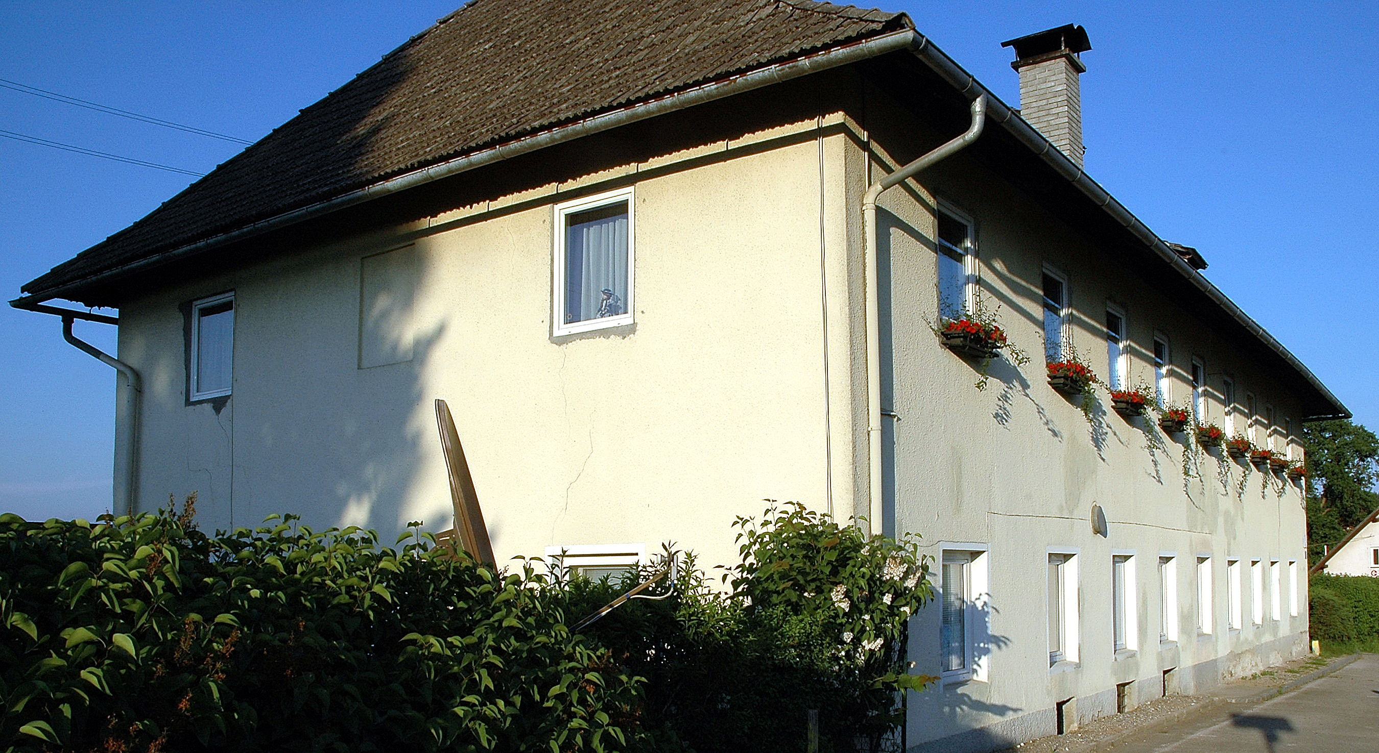 Austrian tollhouse on the border line from 1809 at Markstein, municipality Feldkirchen, Carinthia, Austria